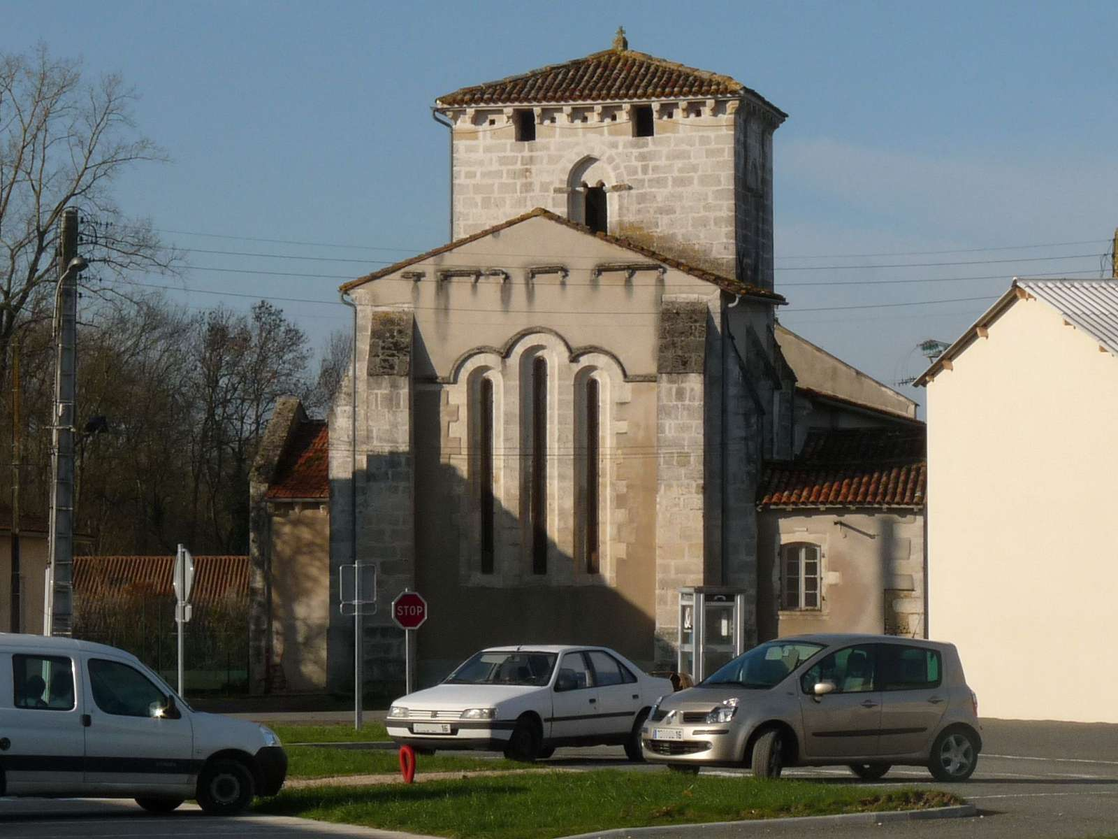 church of Guimps, Charente, SW France